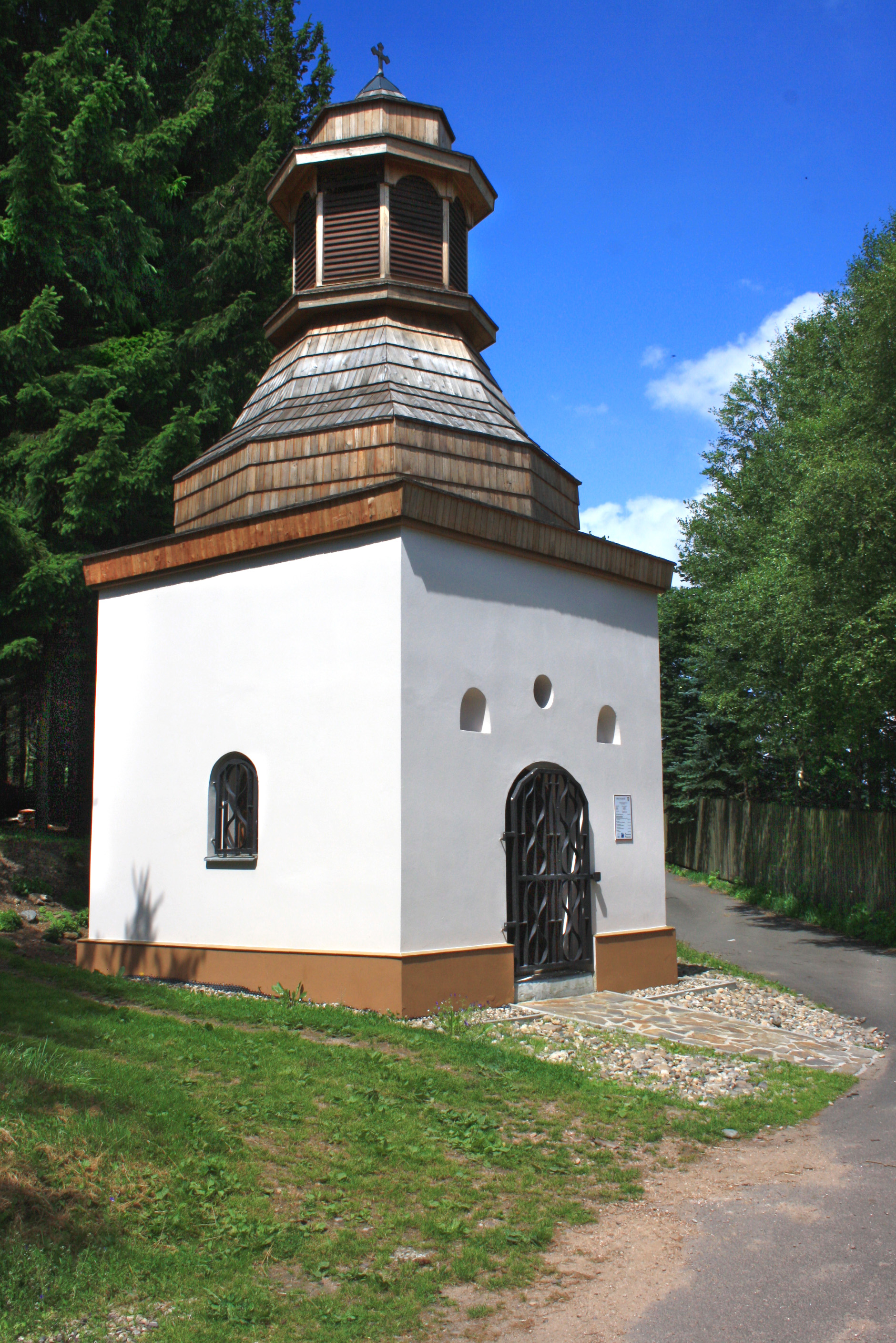 Small chapel in Svahová, part of Boleboř, Czech Republic